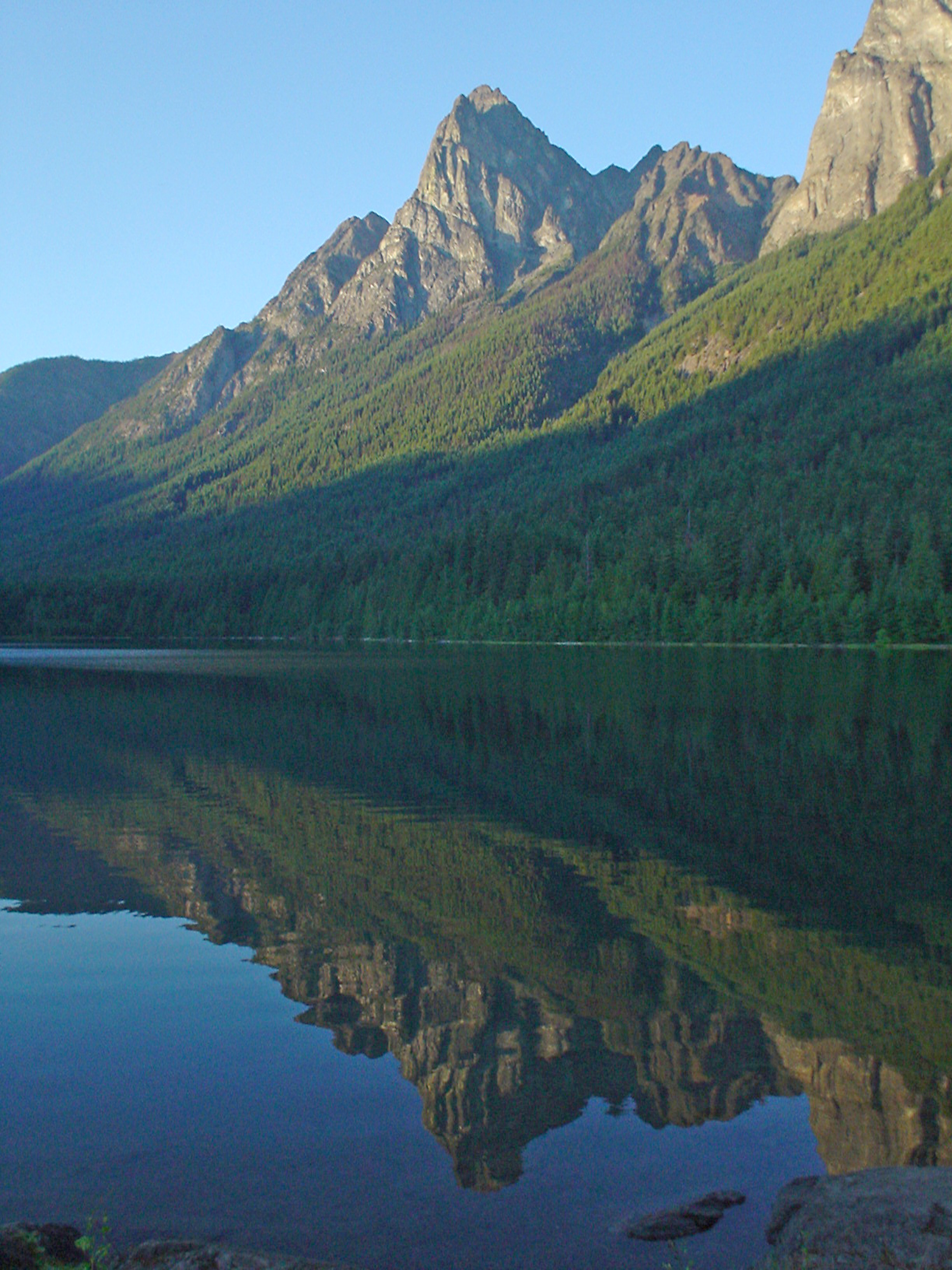 South shore of Hozomeen lake, sunset.